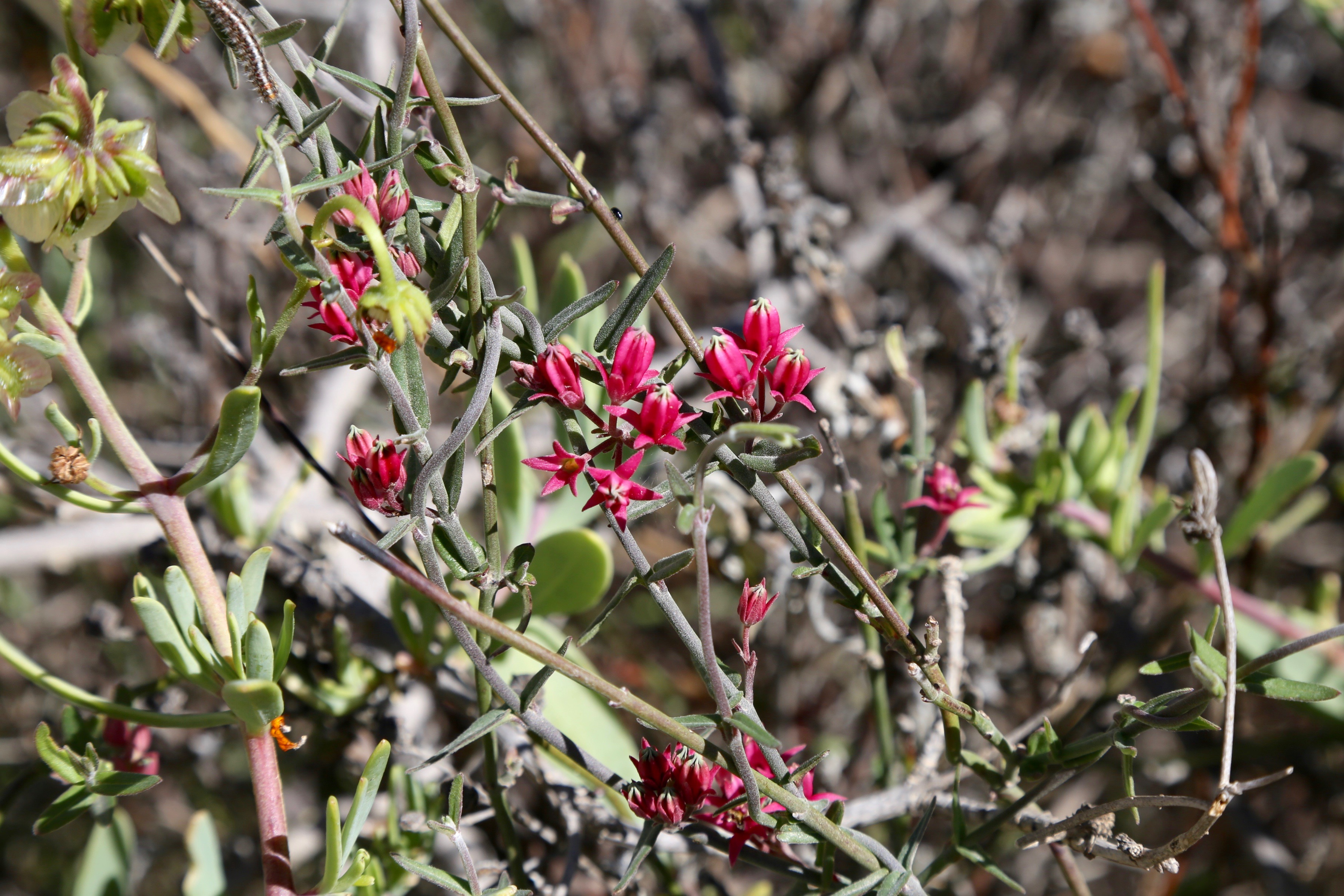 Close to Geelbeksrivier and , NW of intersection of the Salt River (Soutrivier) and Route N7, NW of Vanrhynsdorp, Namaqualand, Western Cape, South Africa.